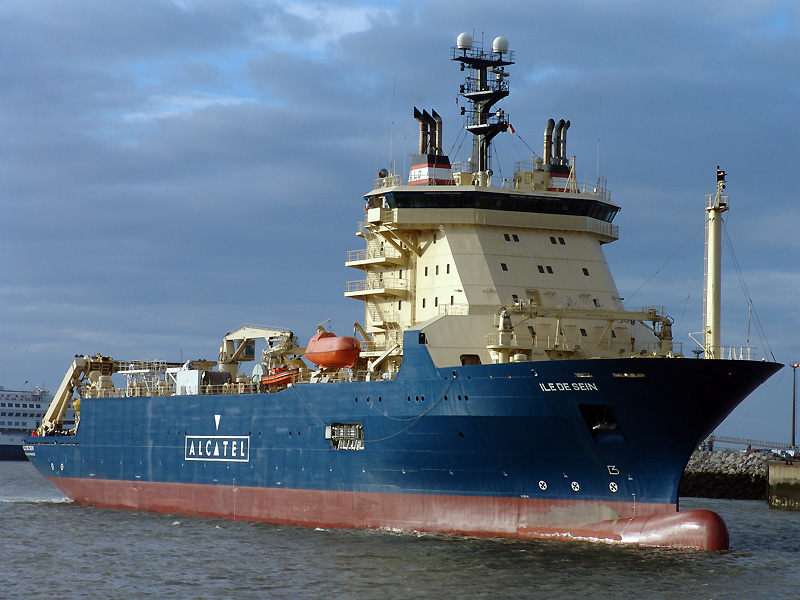 Cableship "Ile de Sein" in the port of Calais, December 2004.